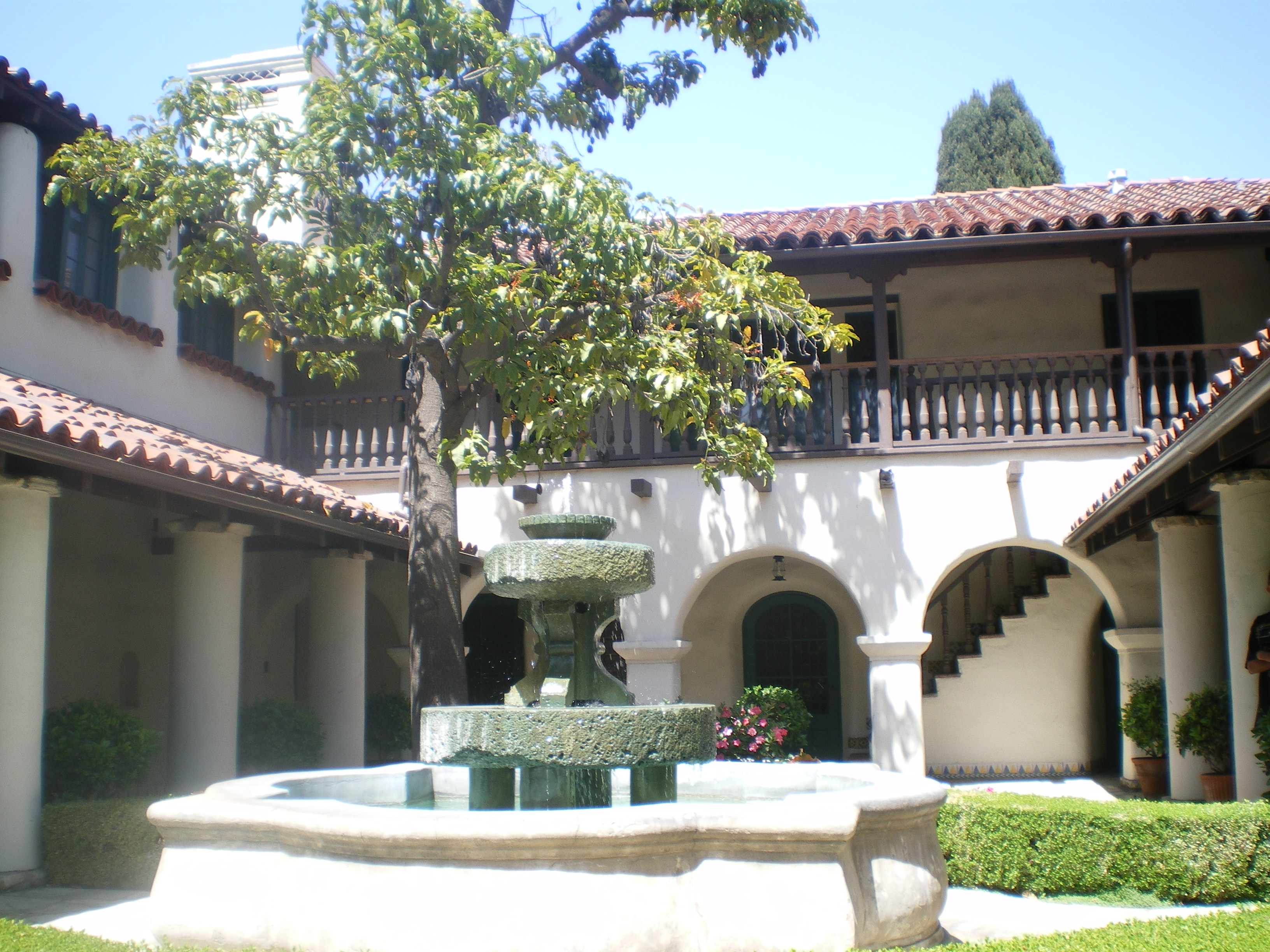 Courtyard at Temple Mansion, City of Industry, California. The Temple Mansion is part of the Homestead Museum at 15415 E. Don Julian Rd., City of Industry, California. The Temple Mansion is listed in the National Register of Historic Places.